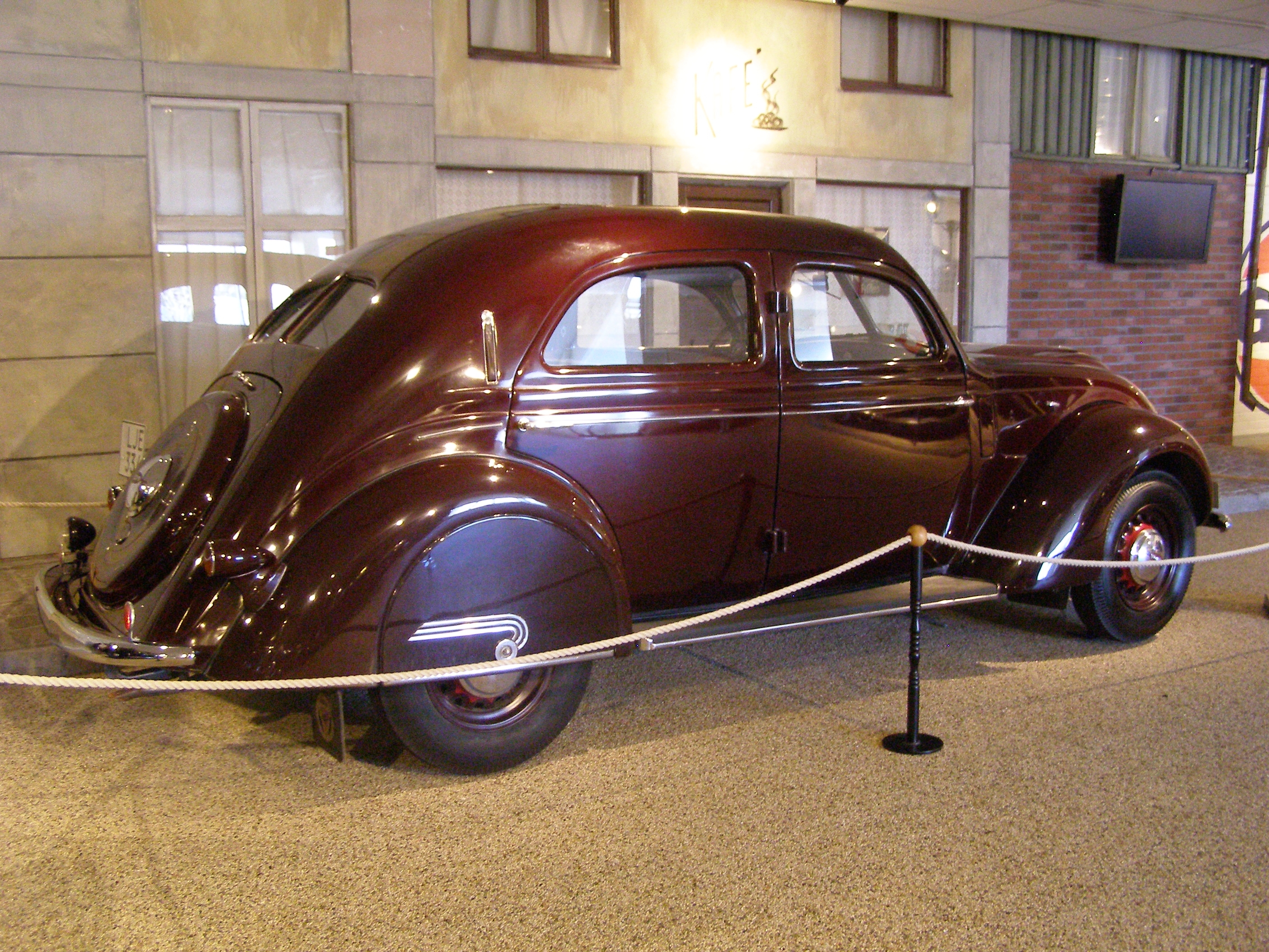 Gothenburg - Volvo Museum - Volvo PV36 Carioca